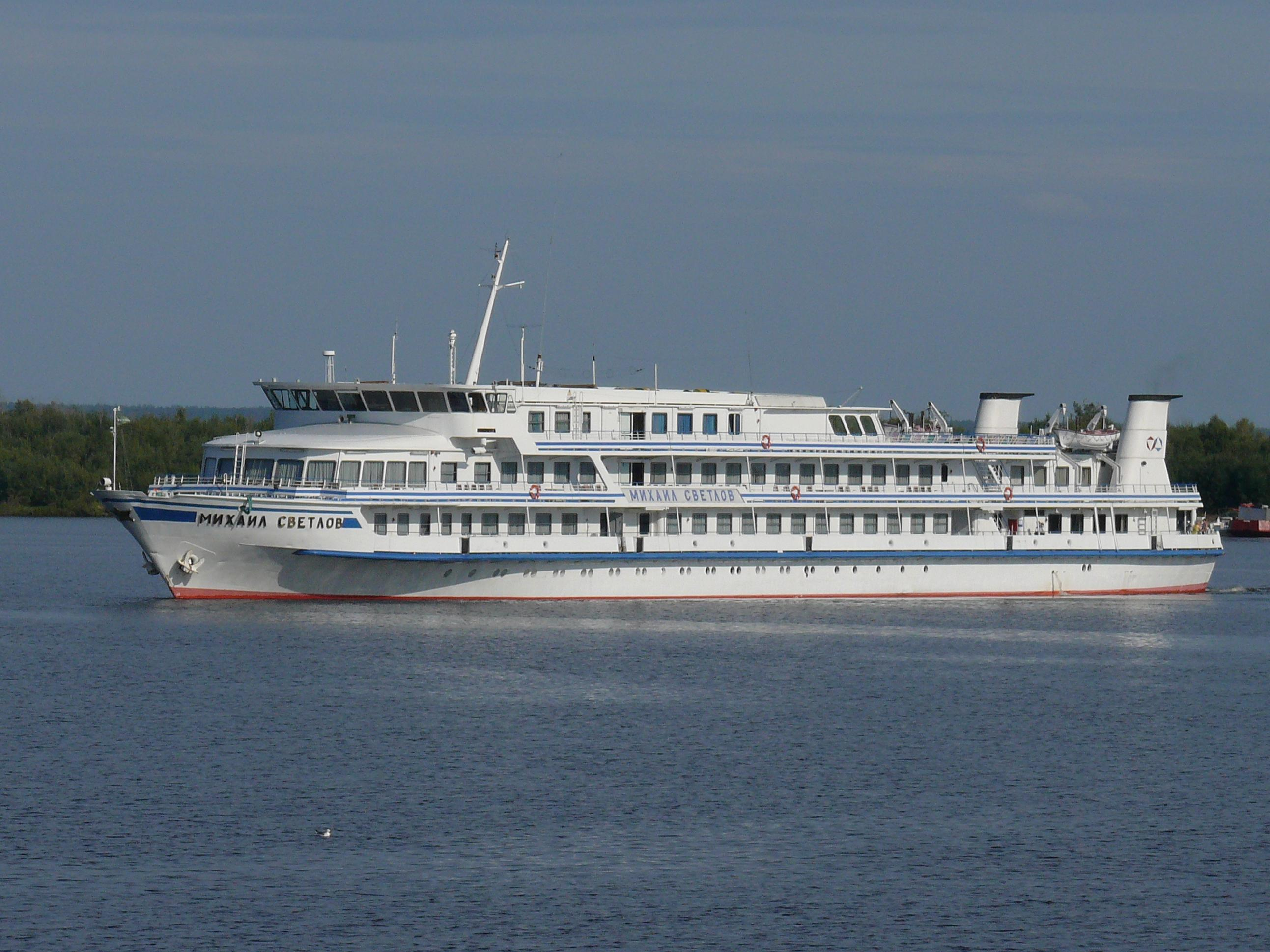 River cruise ship Mikhail Svetlov (project Q-065) in Yakutsk